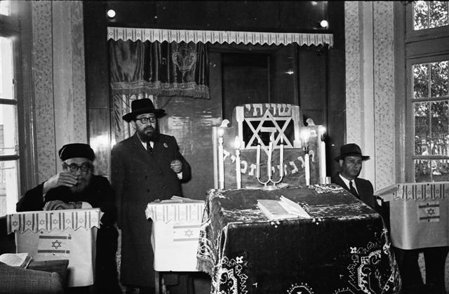 meyor and rabbi of lod, Events in Israel